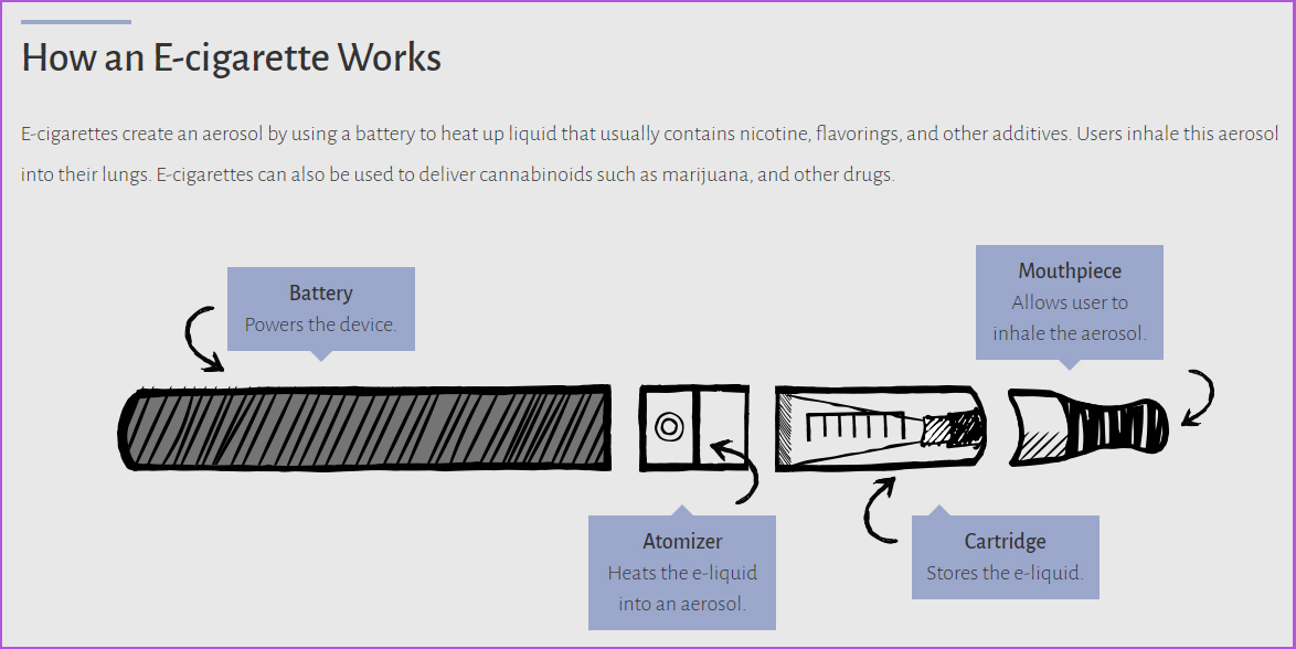 How an E-cigarette worksE-cigarettes create an aerosol by using a battery to heat up liquid that usually contains nicotine, flavorings, and other additives. Users inhale this aerosol into their lungs. E-cigarettes can also be used to deliver cannabinoids such as marijuana, and other drugs.